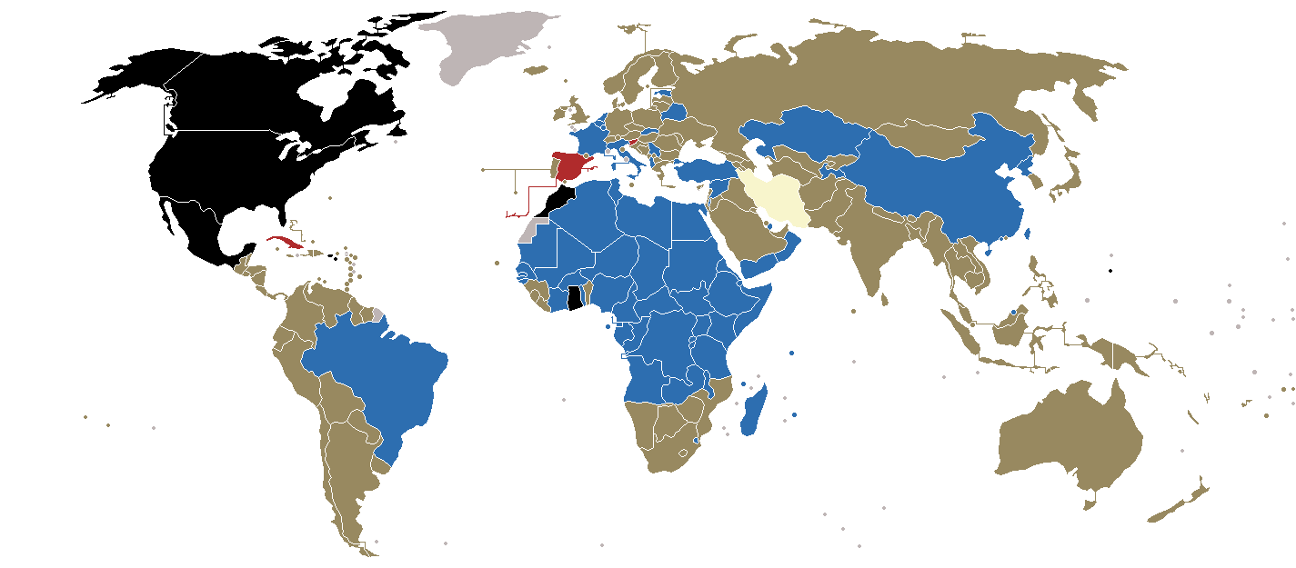 This map shows the distribution of votes to the bids for the 2026 FIFA World Cup with abstentions and ineligible associations to vote also coloured: United Bid in Canada, Mexico and the United States Morocco Bid in Morocco except Western Sahara None of the Bids Abstention Ineglible to Vote Not a FIFA Member